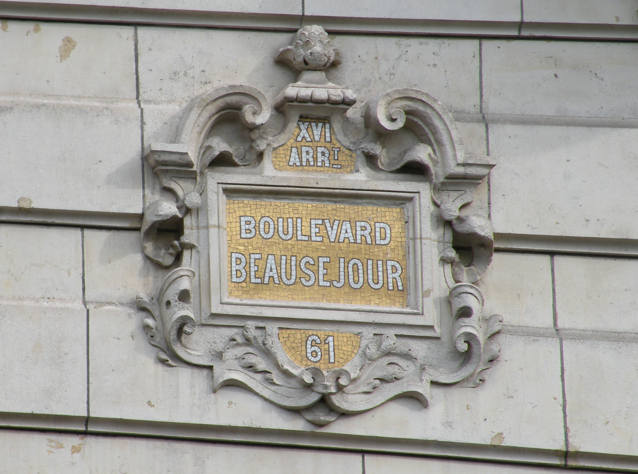 Plaque of the boulevard Beauséjour in the 16th arrondissement of Paris.